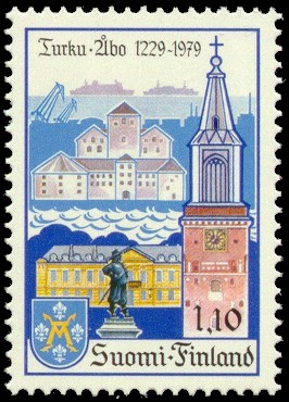 Postage stamp celebrating 750 years of the city of Turku